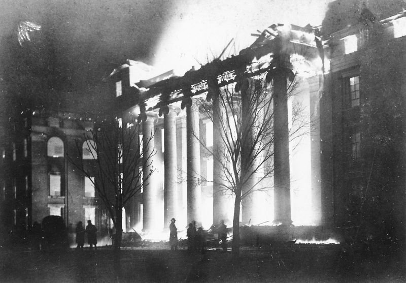 This image was taken in 1892